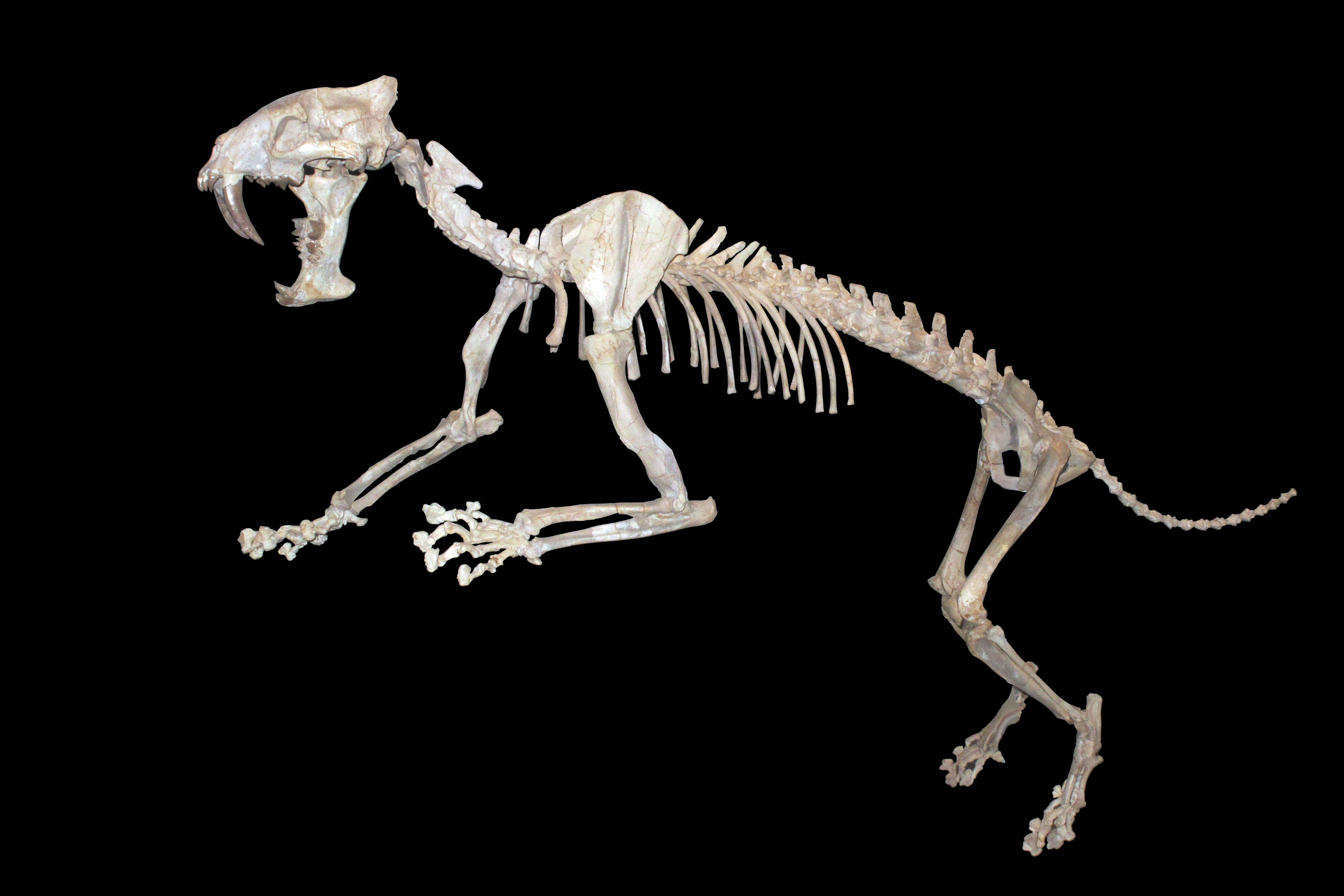 Skeleton of a Hoplophoneus primevus. On display at Zurich natural history museum.